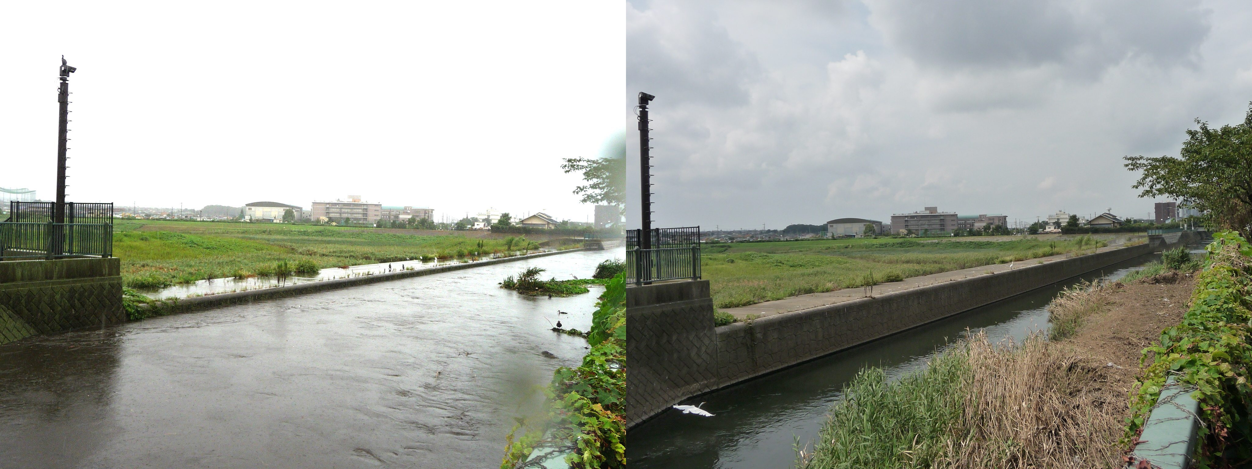 Ookashiwagawa river (in north area of Ichikawa city, Chiba Japan) water volume comparison. (Left photo: Water full almost overflow or overtopping the bank to pondage, remain only 20 cm height, after Heavy Rain when Pacific typhoon No.9 approaching on 10 Aug. 2009 9:32, Right photo: Normal water stream/volume))